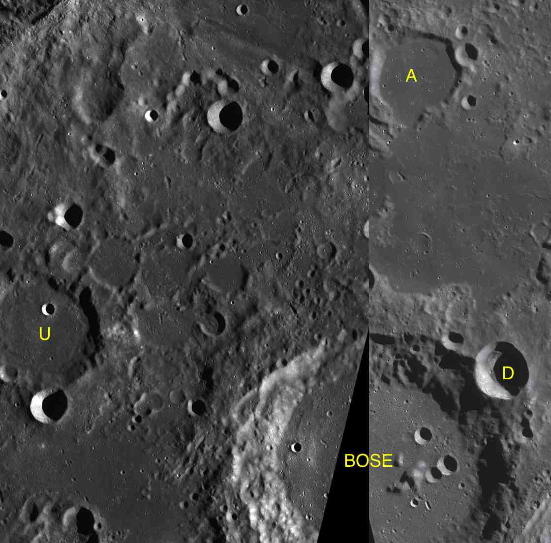 Parts of the charts LAC-132, LAC-133 used for the presentation